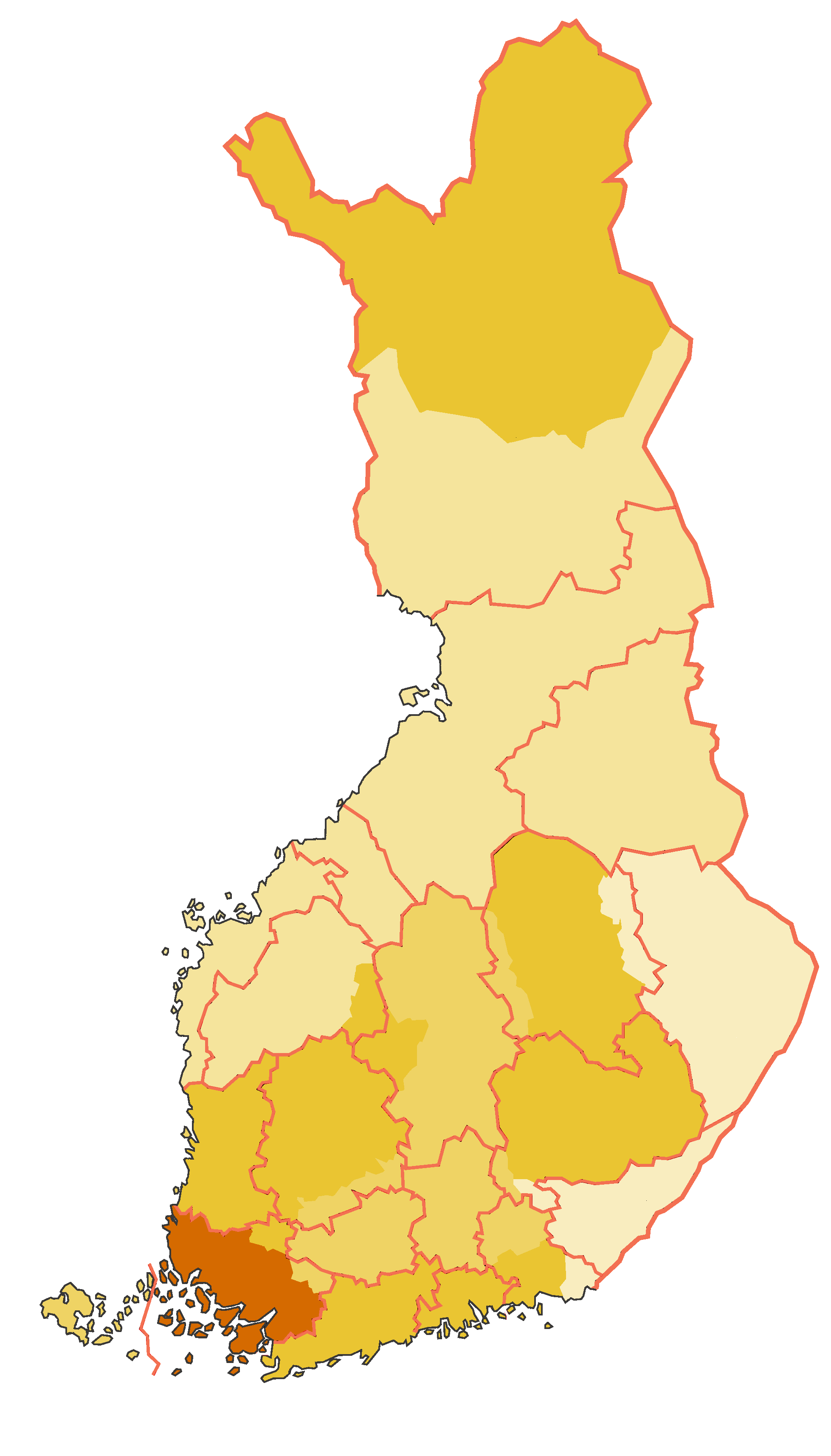 Historical province of Southwest Finland in Finland